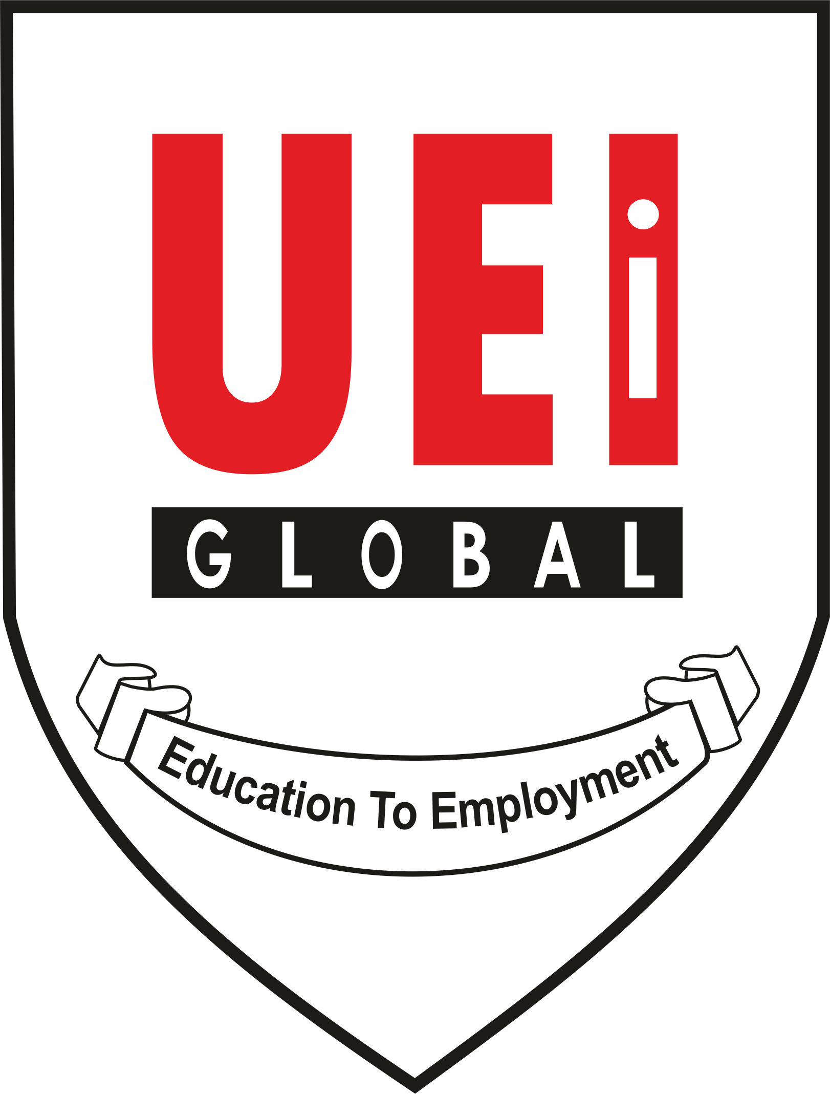 UEI Global Logo